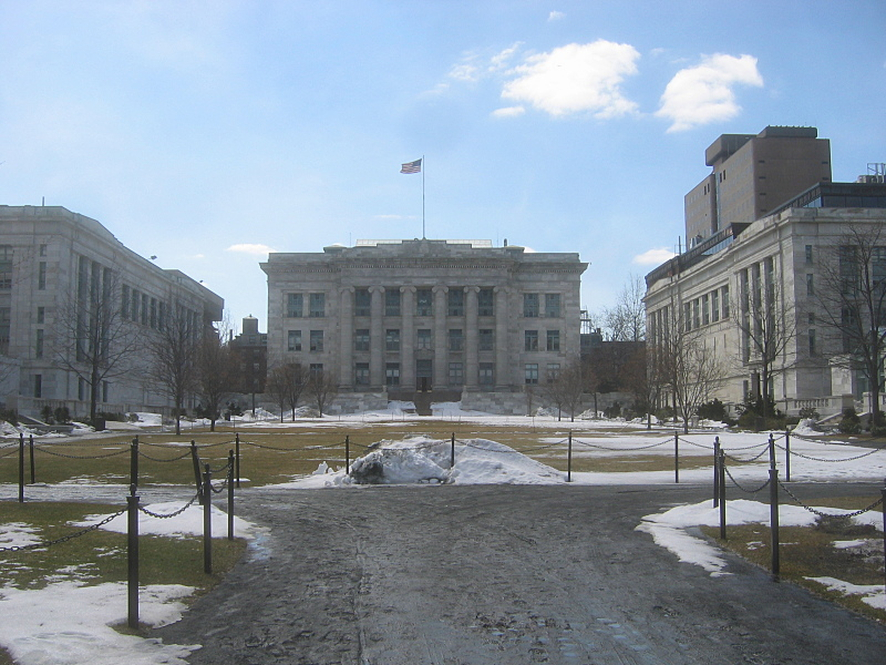 Harvard Medical School quad. © 2005 Joseph Barillari